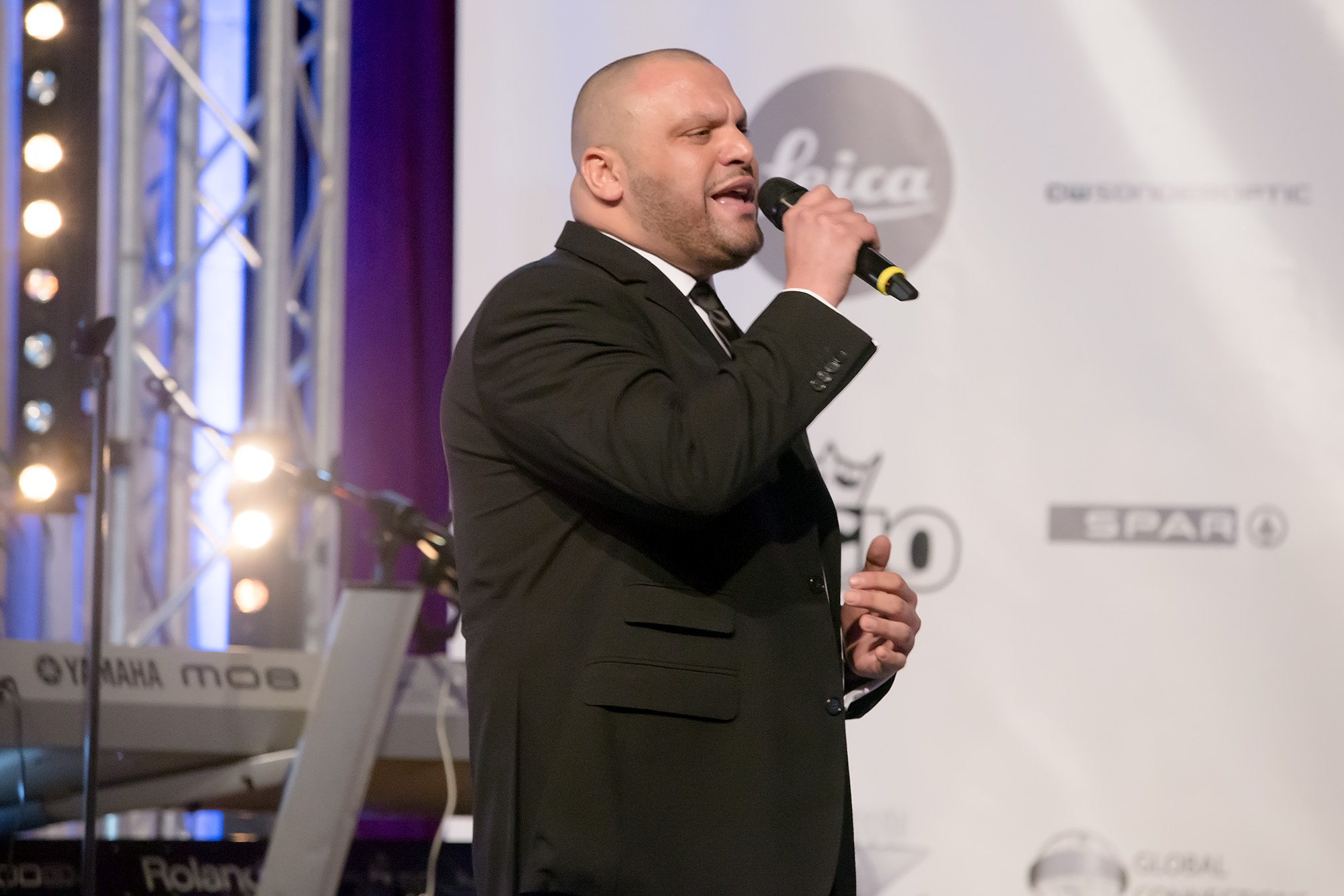 Ayman, opening of Filmball Vienna 2015 and Wiener Filmpreis at Rathaus, Vienna, Austria.